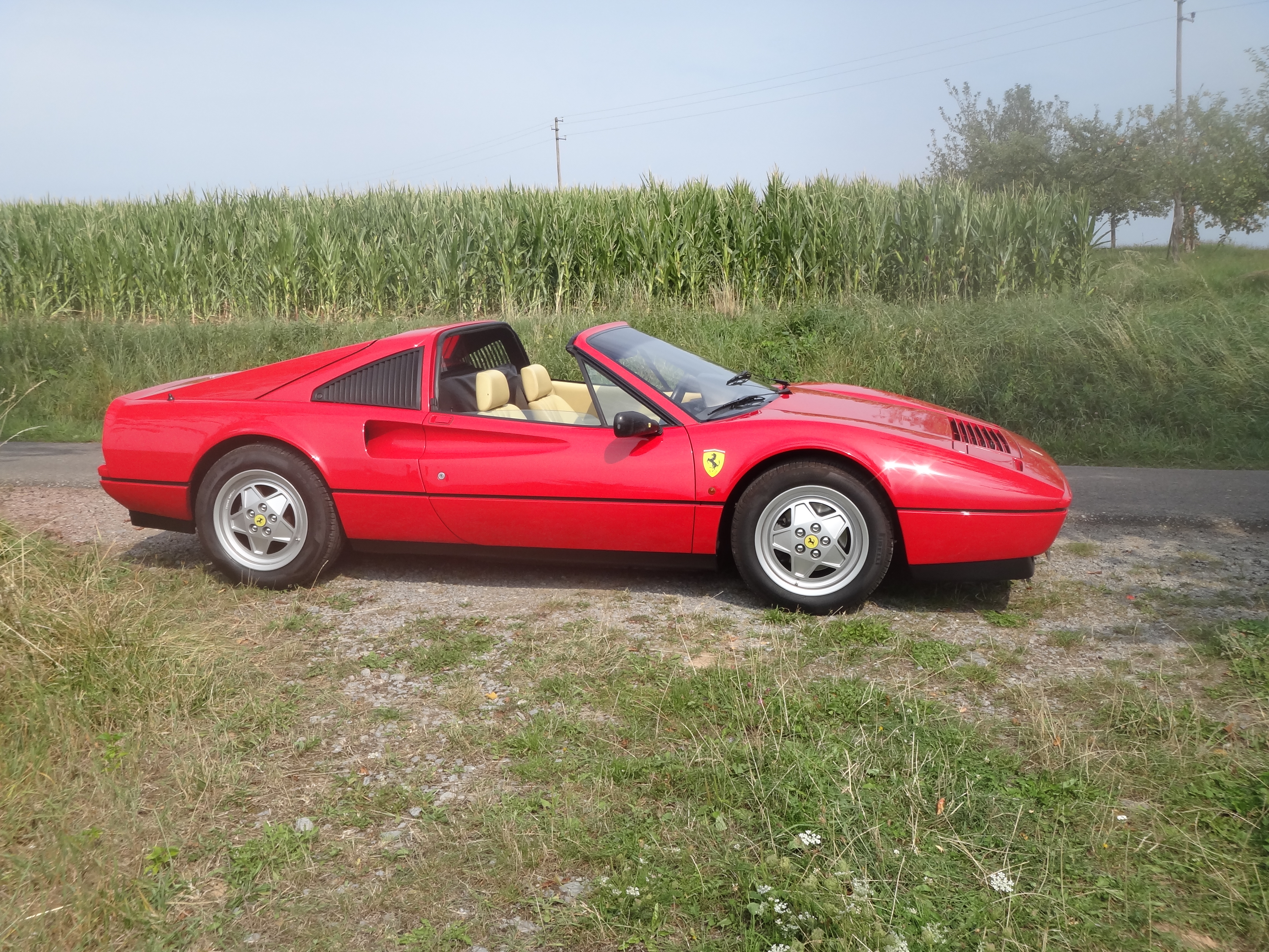 Ferrari 328 GTS (1988)